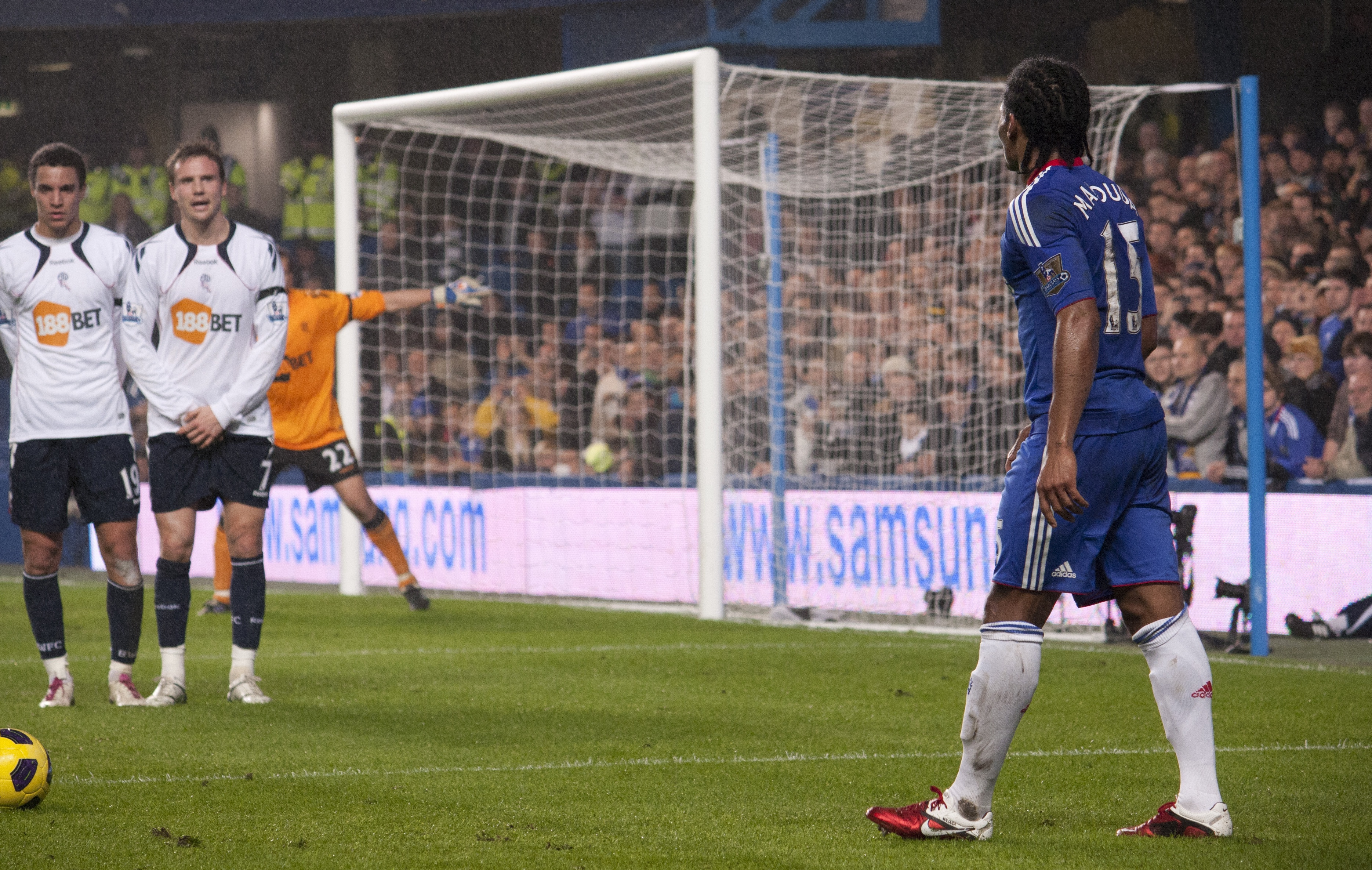 Florent Malouda of Chelsea gets ready to take a free kick. Rodrigo and Matthew Taylor of Bolton form a wall.